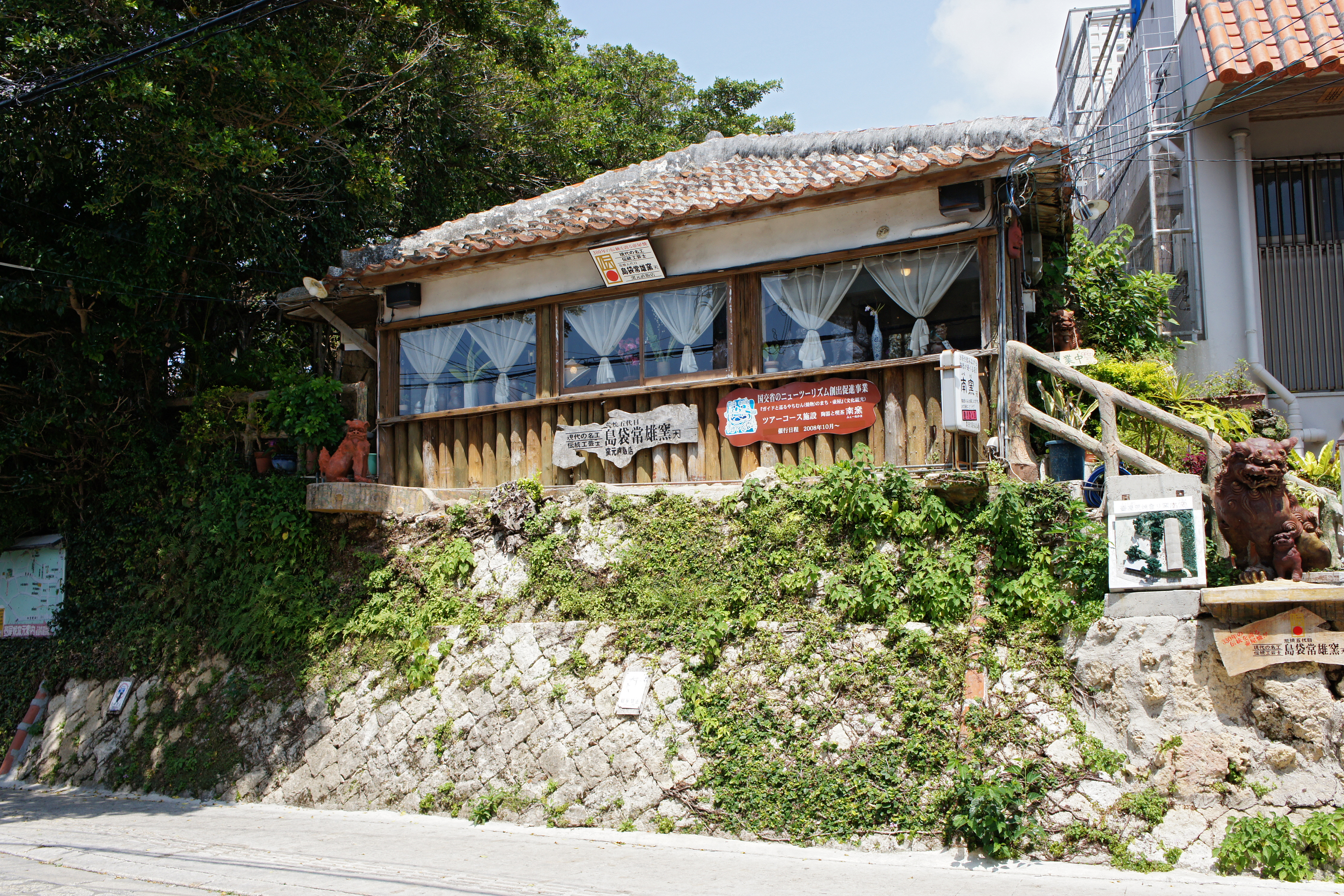 Tsuboya, Naha, Okinawa prefecture, Japan